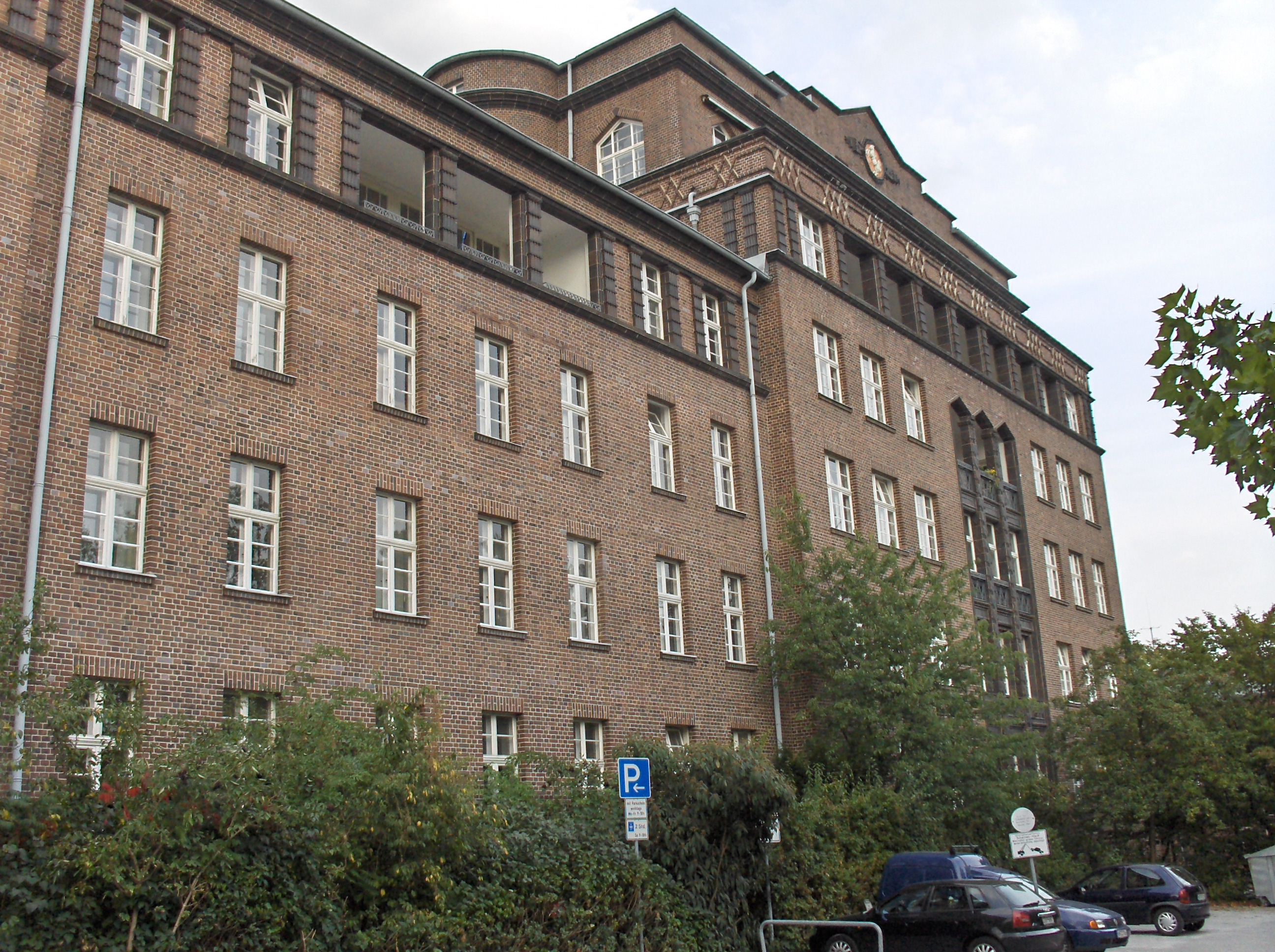 Town administration building in town of Herford, District of Herford, North Rhine-Westphalia, Germany.